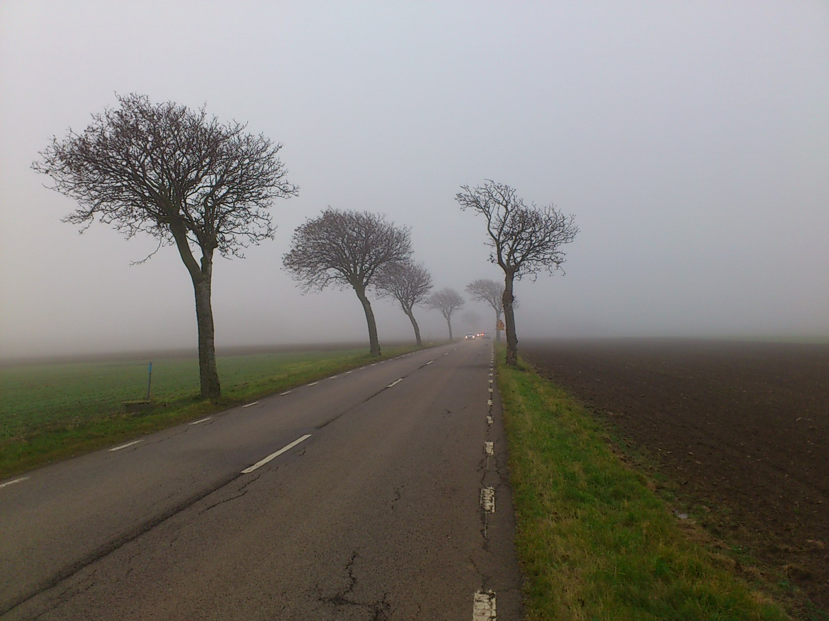 Road number 111 just outside Mölle a misty October day in 2011